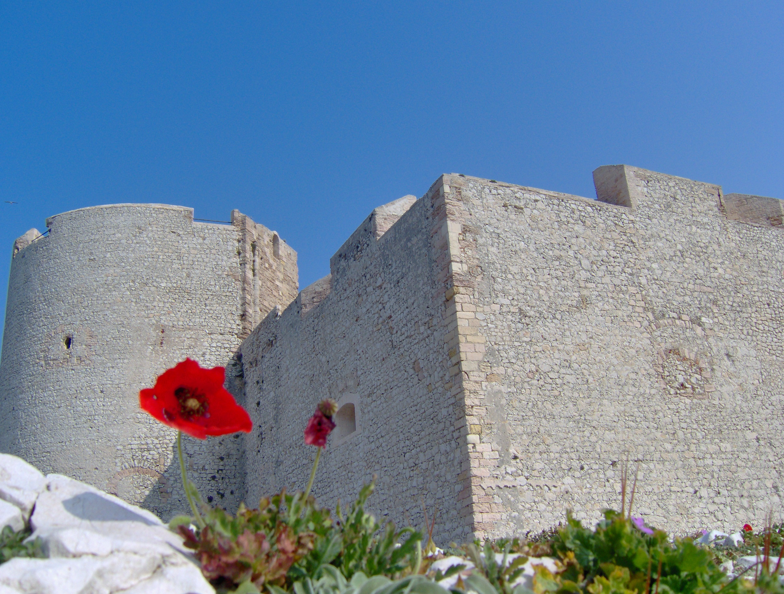 A view of the Château d'If.